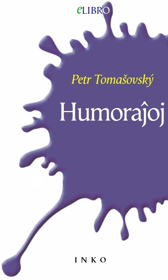 A cover of the Humoraĵoj E-book.